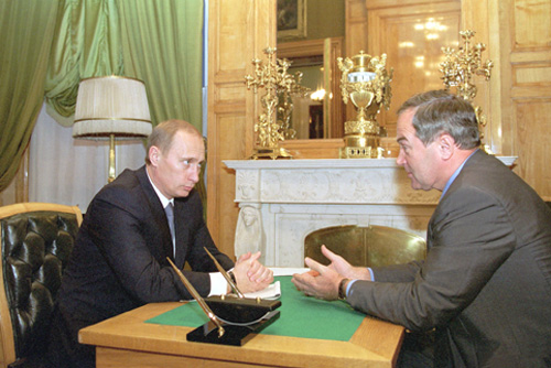 THE KREMLIN, MOSCOW. With Governor of Primorsky Krai, Yevgeny Nazdratenko.